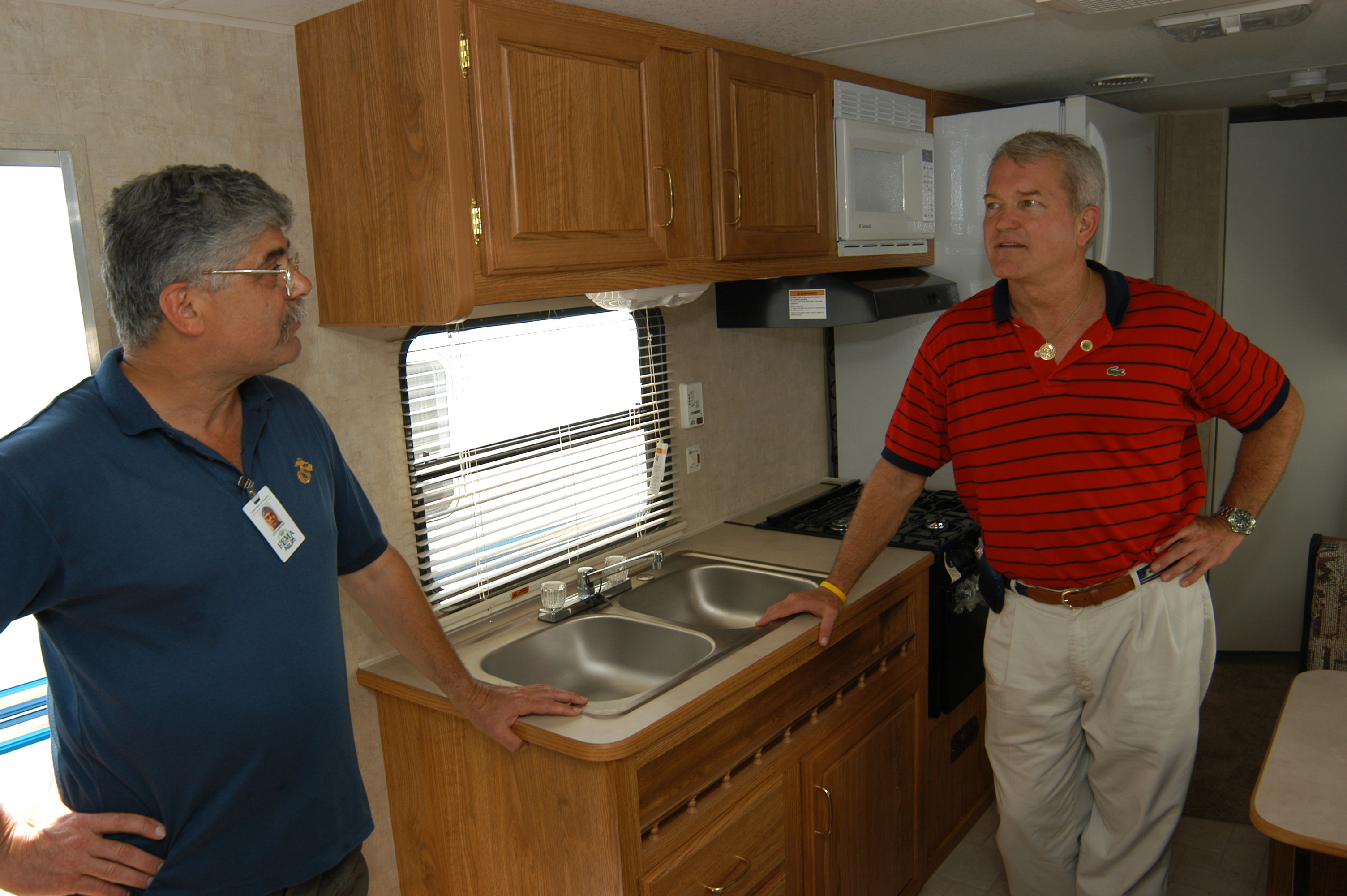 Port Charlotte, FL, September 16, 2004 -- Congressman Mark Foley (right) checks out the travel trailers that FEMA provides as temporary housing with a FEMA representative. FEMA Photo/Mark Wolfe